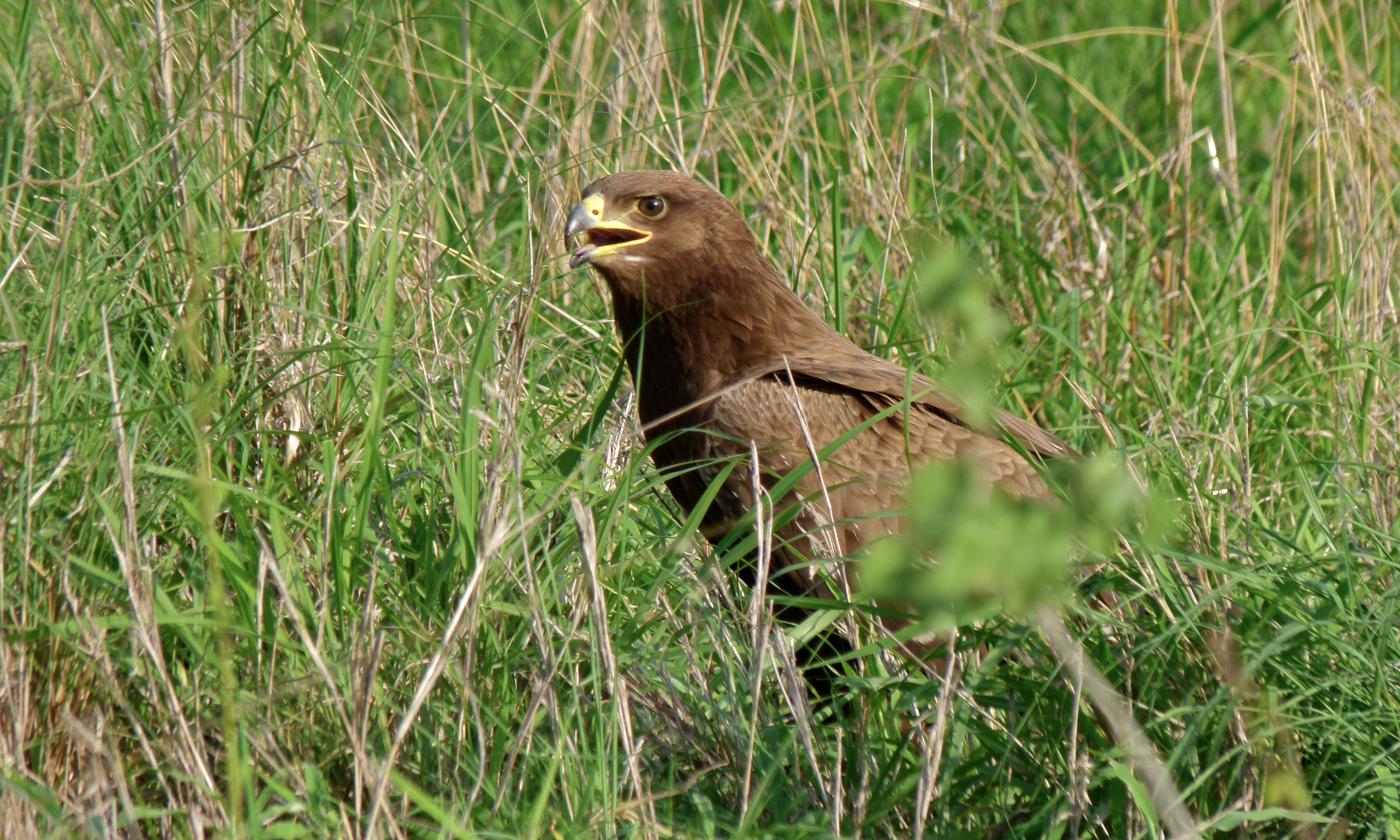 S30 North of Lower Sabie, Kruger NP, SOUTH AFRICA